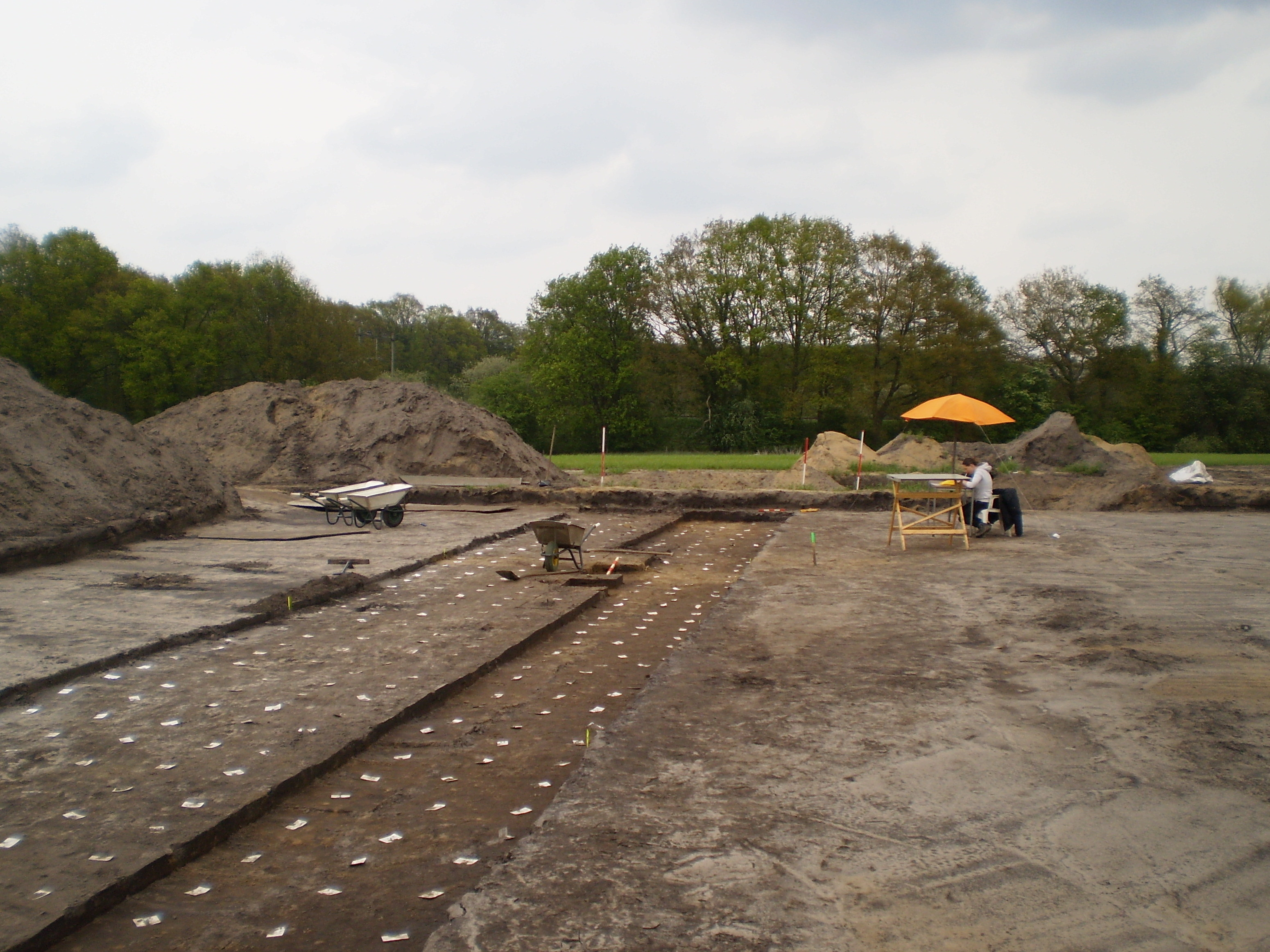 Archaeological site near Deventer, the Netherlands